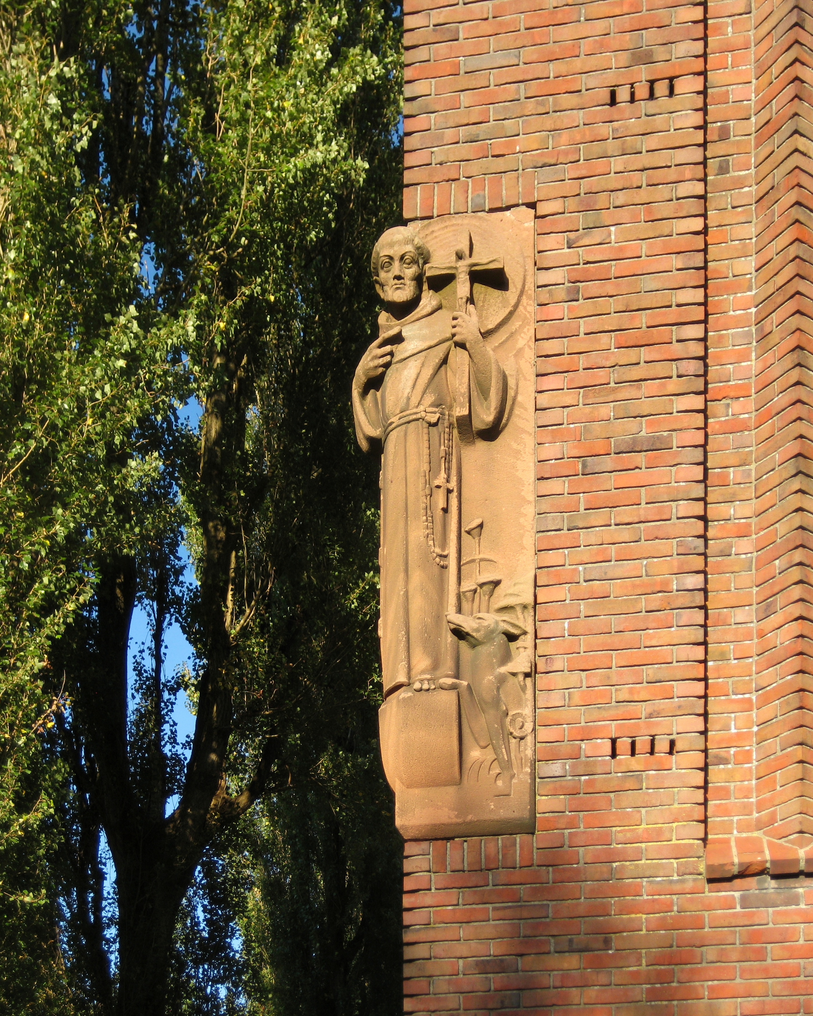 Sculpture of Francis of Assisi (1933, Herman van Remmen) in the outside wall of the Sint-Franciscuskerk in the Dutch city of Groningen.